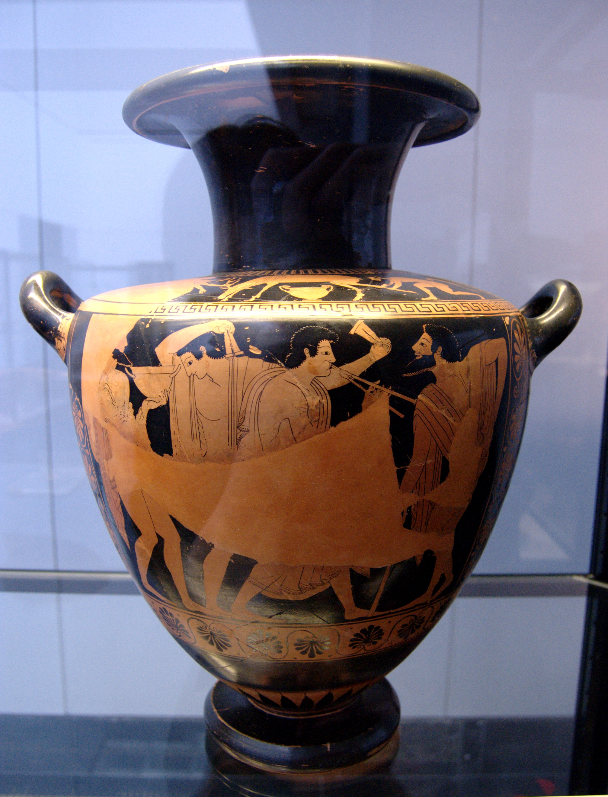 Komos scene: one holds a skyphos, two others are playing music (crotales and aulos), the last one sings. Attic red-figure hydria, ca. 500 BC. From Vulci.